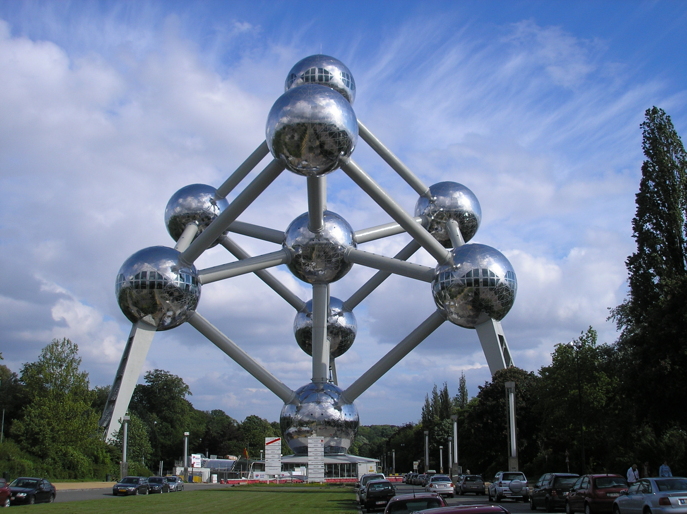 Atomium, Brussels